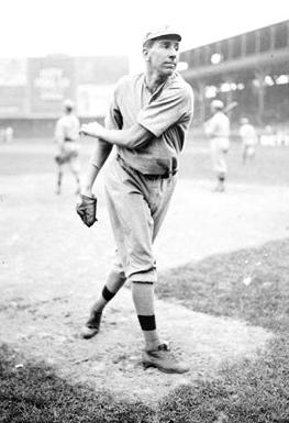 Informal full-length portrait of baseball player Rixey of the National League's Philadelphia Phillies, following through after throwing a baseball, standing on the field at West Side Grounds, light exposure, located between West Polk Street, South Wolcott Avenue (formerly Lincoln Street), West Taylor Street, and South Wood Street in the Near West Side community area of Chicago, Illinois. A sign prohibiting betting is partially visible on a grandstand wall in the background on the right side of the image.